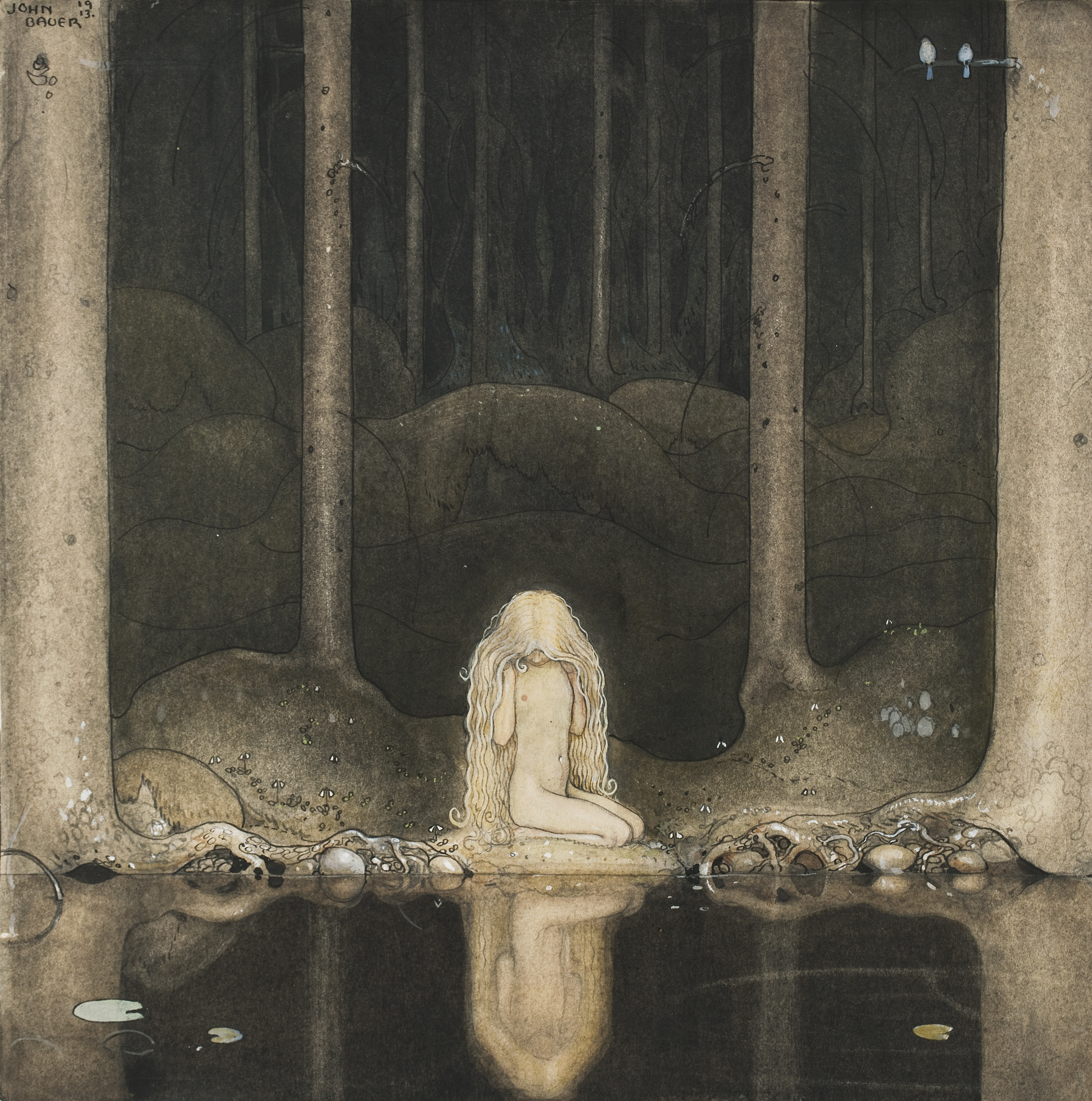 Bland tomtar och troll, 1913. See also Image:John-Bauer-Elk-Cotton3.jpg from the same story.